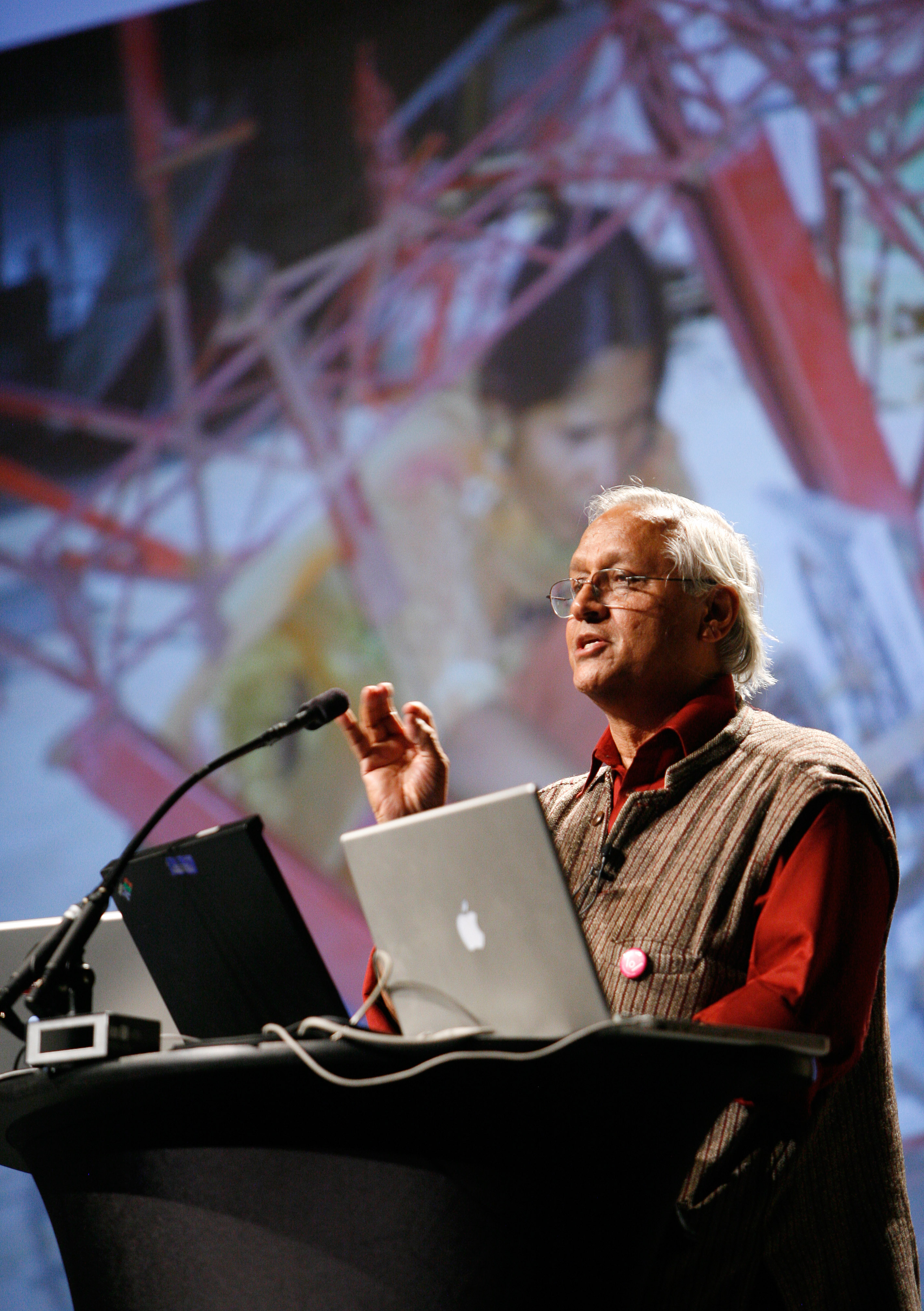 Sanjit Roy's Barefoot College challenges traditional notions of education by empowering people in poor, rural, illiterate areas to learn to use technology to improve and sustain their quality of life. photography by kris krüg